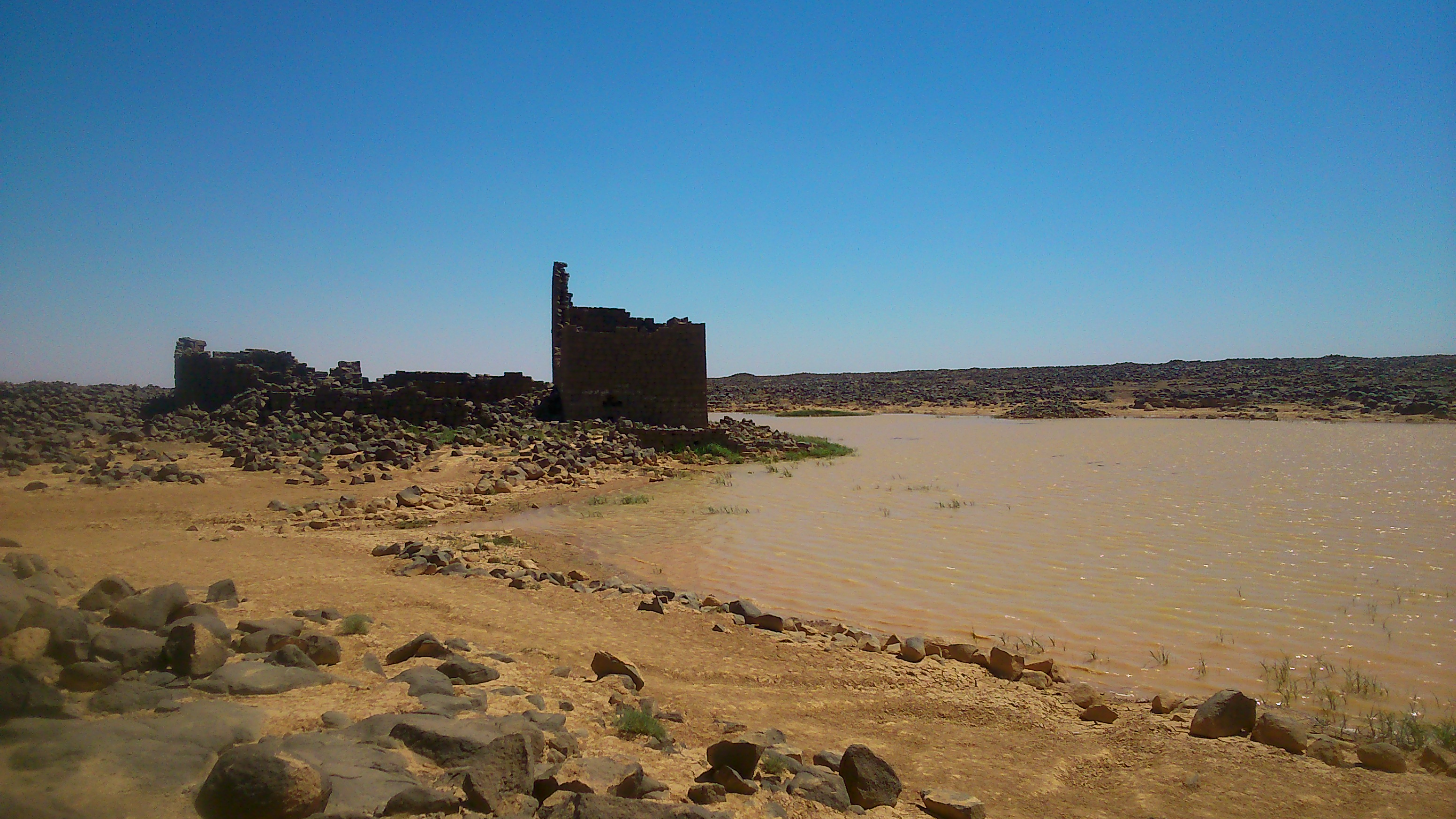 Qasr Burqu and Burqu lake, eastern Jordan, from the north